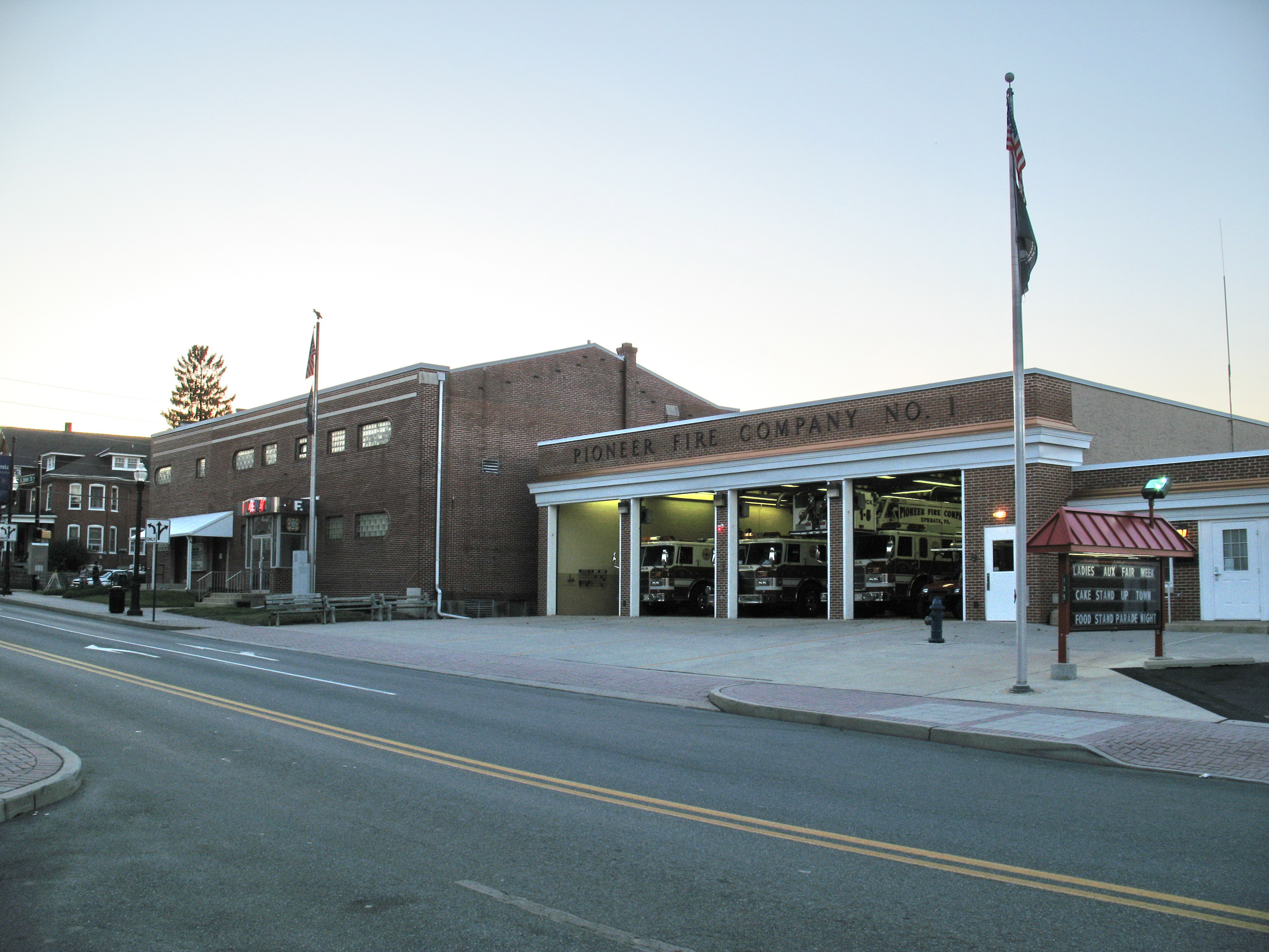 Pioneer Fire Company No. 1 (volunteer) and the Veterans of Foreign Wars (VFW) facility, Ephrata, Pennsylvania